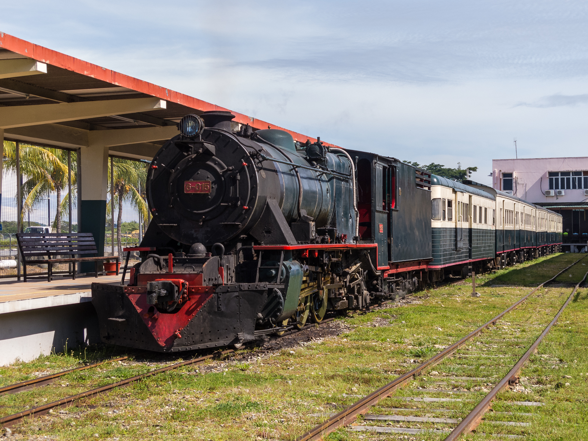 Tanjung Aru, Sabah: "The Heritage Steam Train" in Tg. Aru ready for the ride.